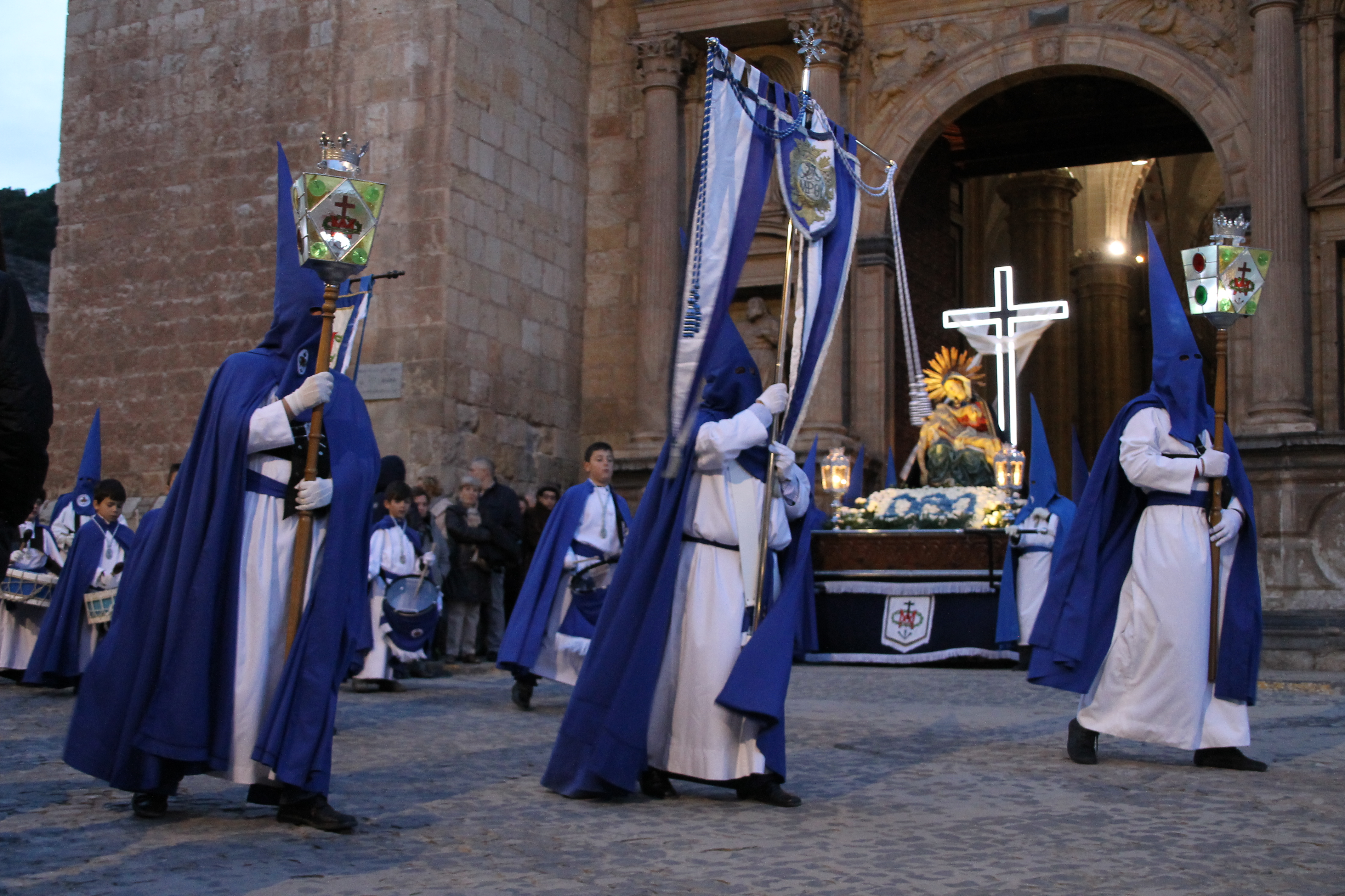 Holy Week in Daroca